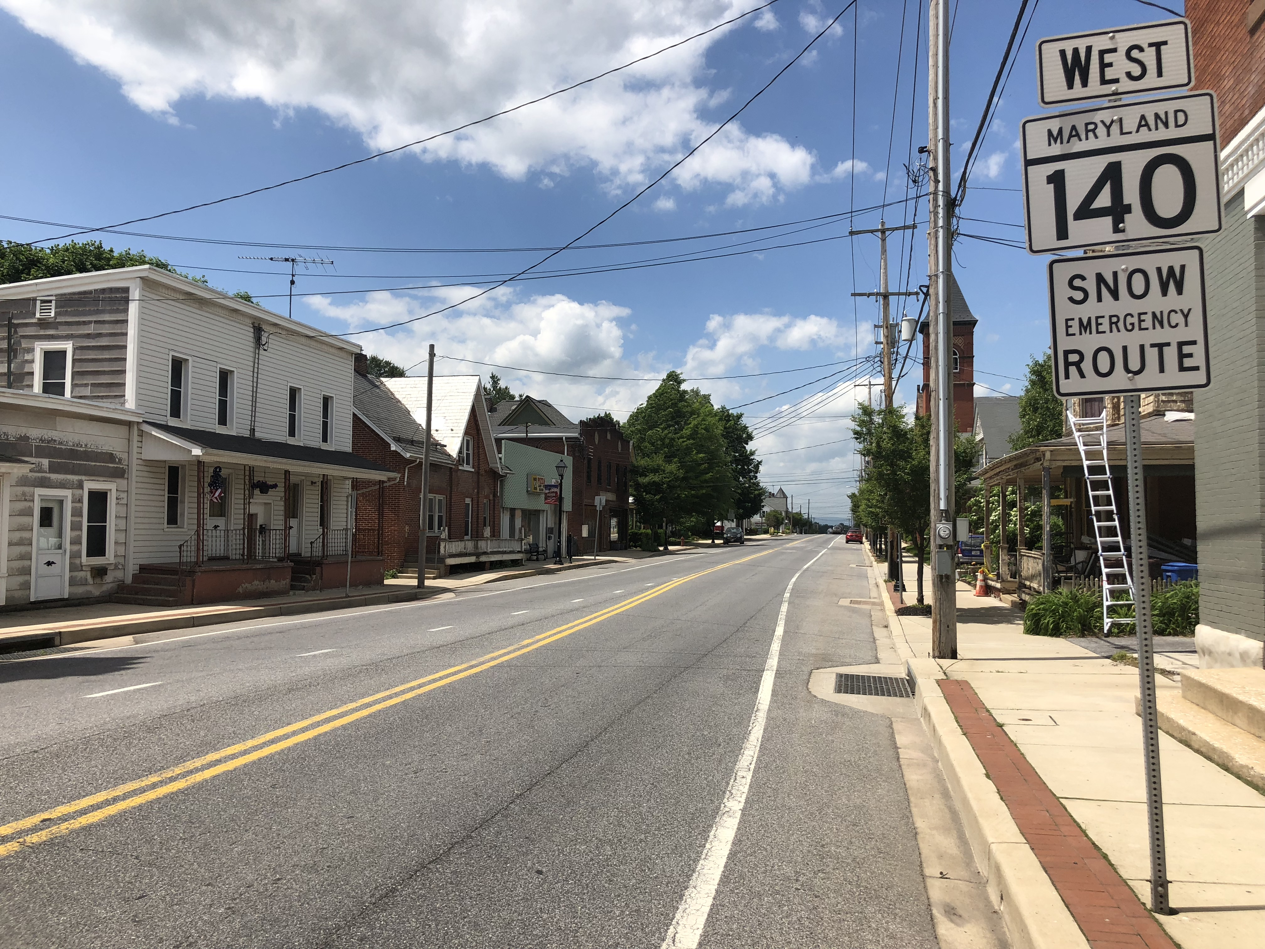 View west along Maryland State Route 140 (Baltimore Street) just west of Maryland State Route 194 (Frederick Street/York Street) in Taneytown, Carroll County, Maryland